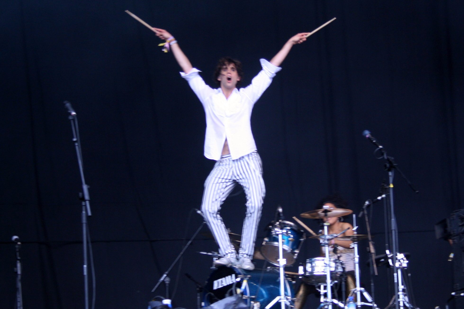 Struts his stuff on top of the drum kit all night long!